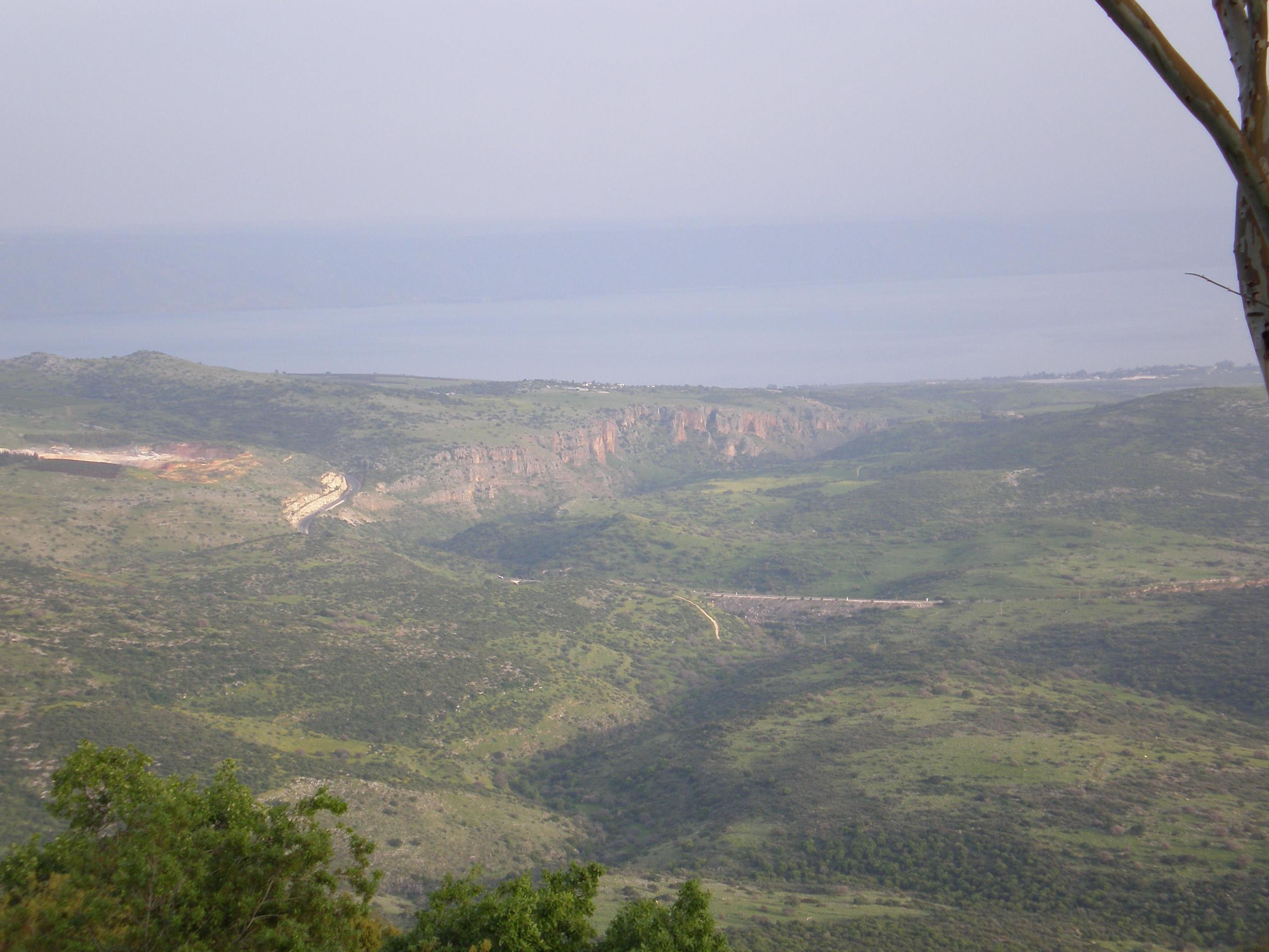 View from Amirim (אמירים), Israel.